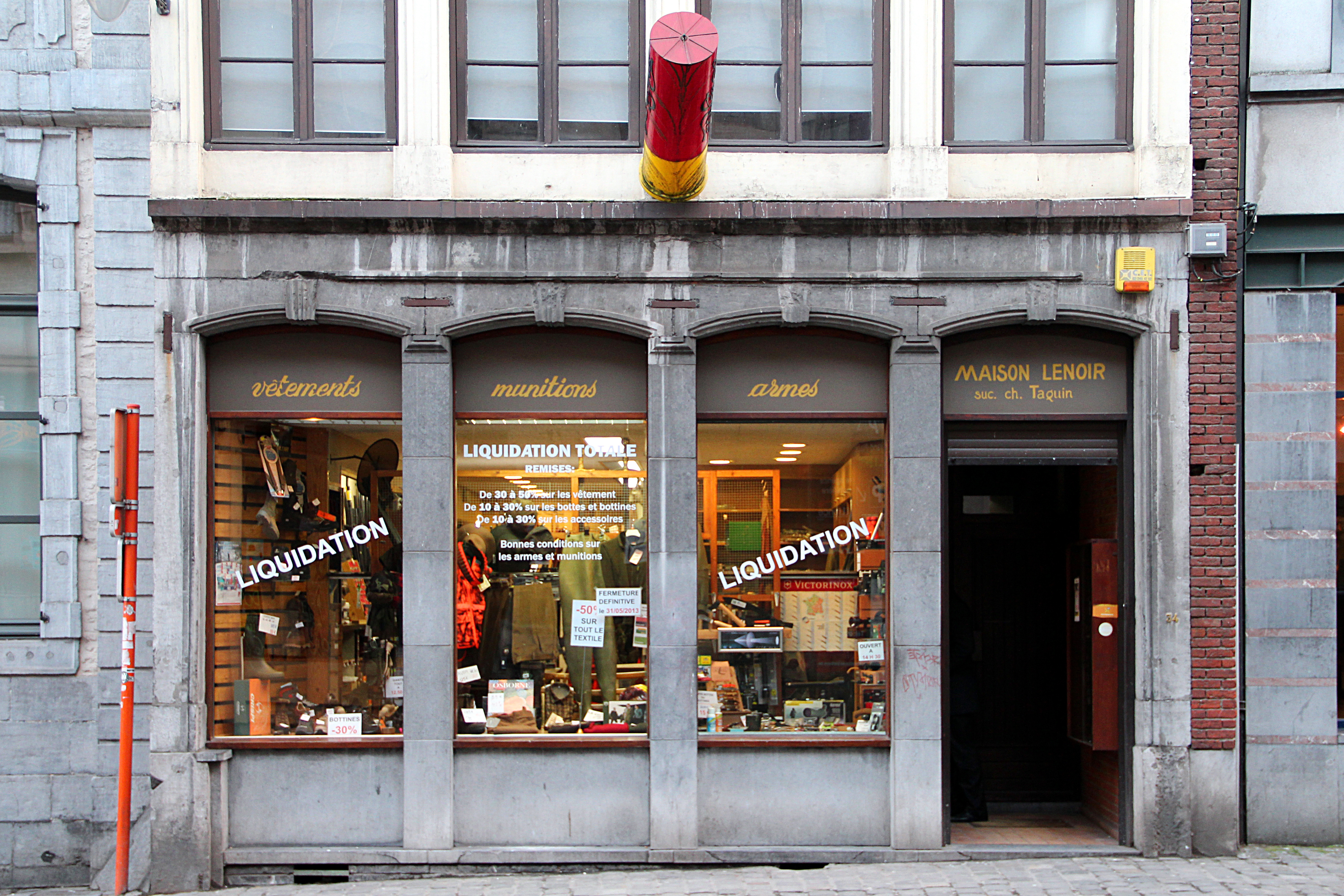 Mons (Hainaut) (Belgique), rue d’Havré, 34. - Typical shop window of a weapon shop.